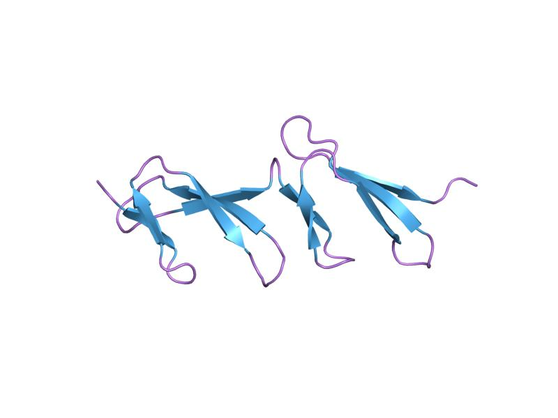 Cartoon representation of the molecular structure of protein registered with 1fbr code.